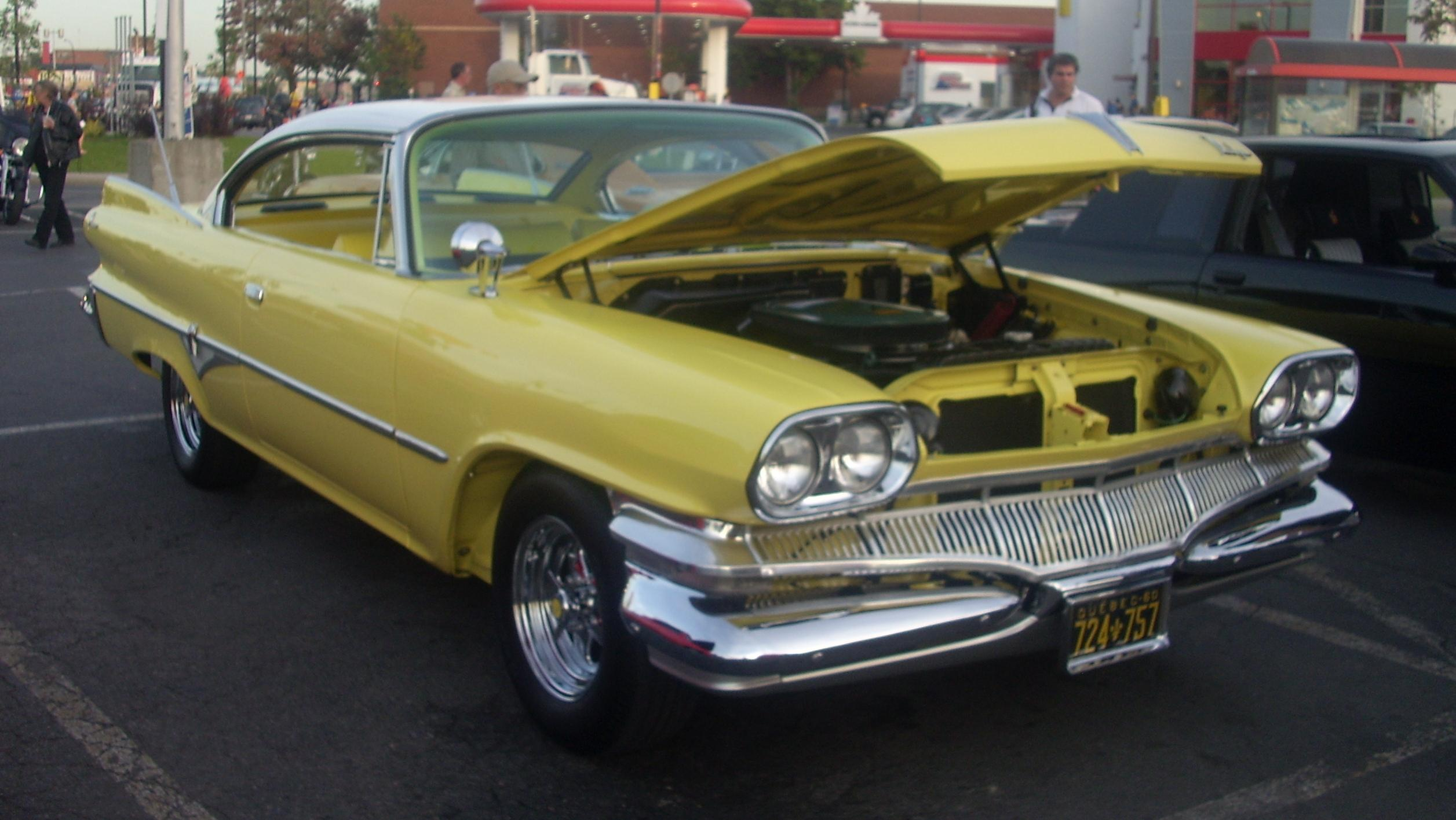 1960 Dodge Dart Pioneer photographed in Montreal, Quebec, Canada at Gibeau Orange Julep.